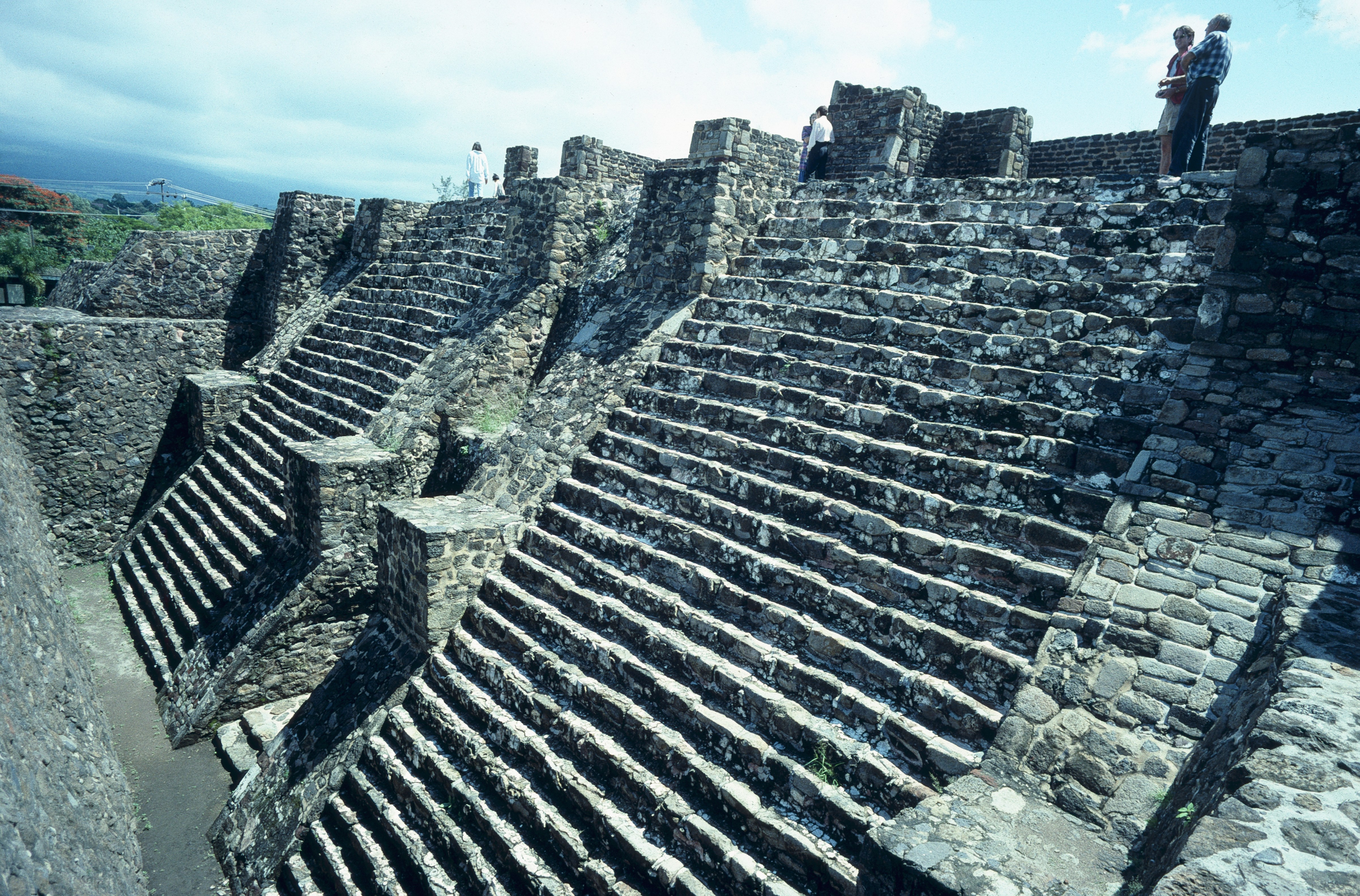 Teopanzolco, Cuernavaca, Morelos, Mexico: Main pyramid